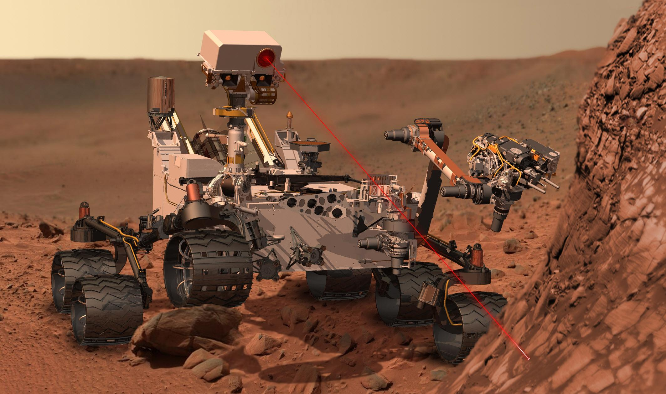 This artist's concept depicts the rover Curiosity, of NASA's Mars Science Laboratory mission, as it uses its Chemistry and Camera (ChemCam) instrument to investigate the composition of a rock surface. ChemCam fires laser pulses at a target and views the resulting spark with a telescope and spectrometers to identify chemical elements. The laser is actually in an invisible infrared wavelength, but is shown here as visible red light for purposes of illustration. NASA's Jet Propulsion Laboratory, a division of the California Institute of Technology, Pasadena, manages the Mars Science Laboratory Project for the NASA Science Mission Directorate, Washington, and designed and built Curiosity.